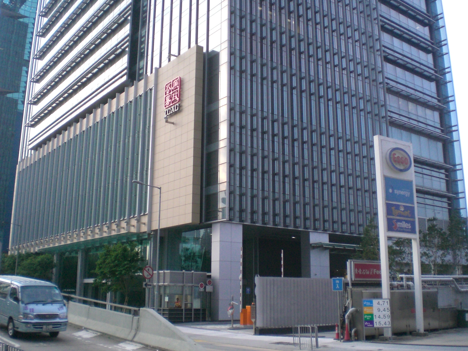 北角渣華道黃昏